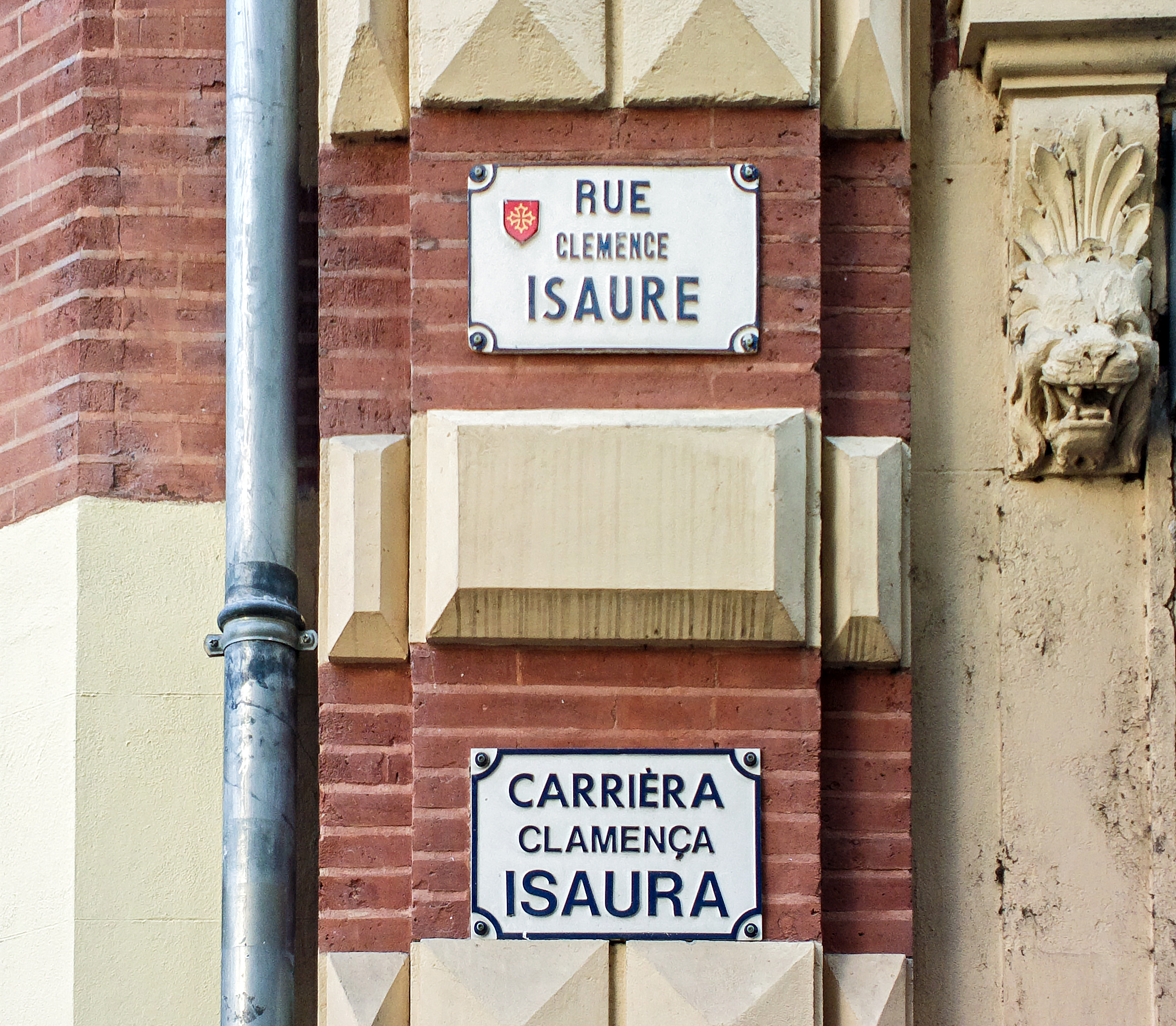 Street name sign in Toulouse. They have the particularity of being: in French and Occitan. Rue Clémence-Isaure.